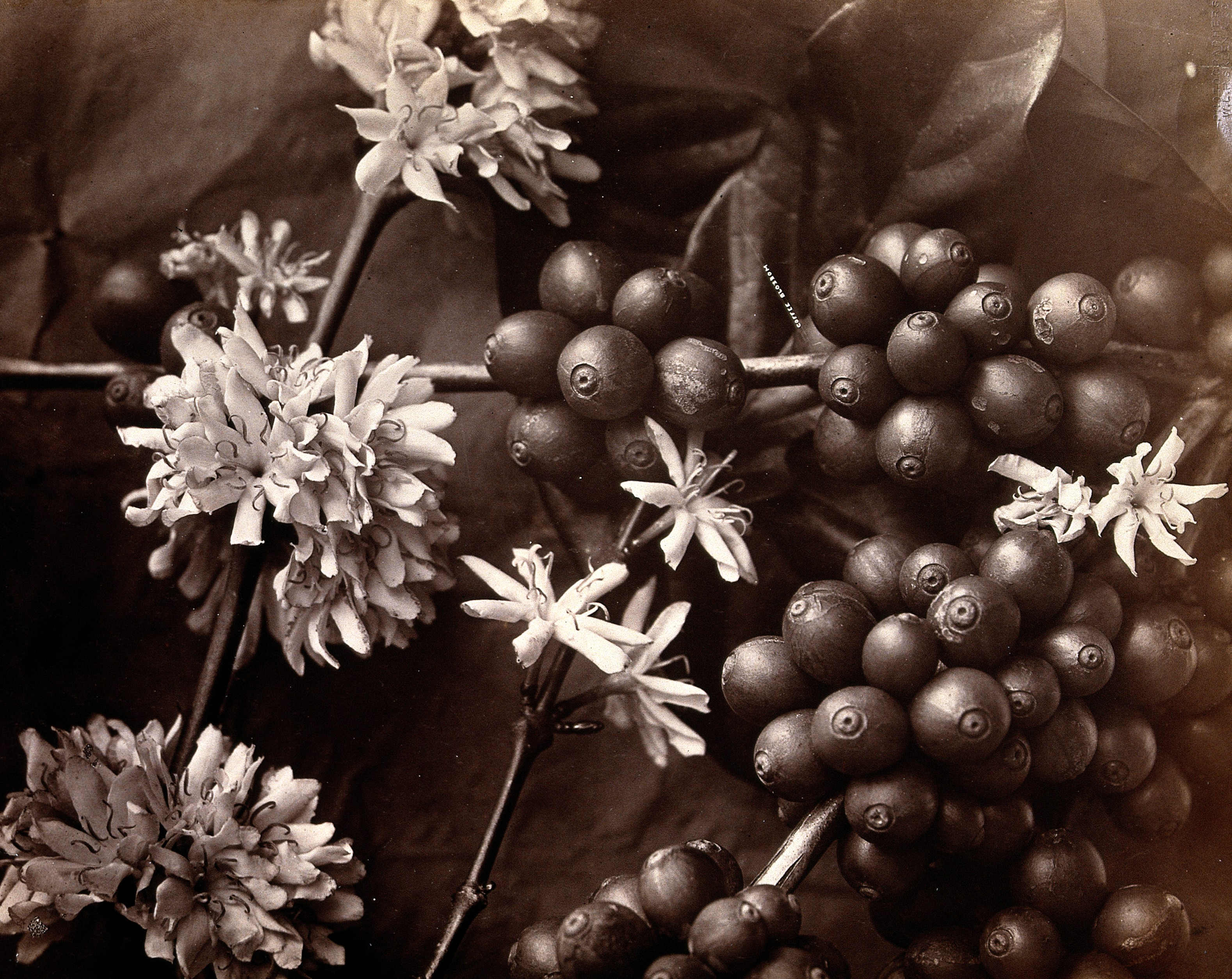 The blossom and fruit of a coffee tree (Coffea arabica). Photograph. Iconographic Collections Keywords: W.L.H.Skeen & Co..